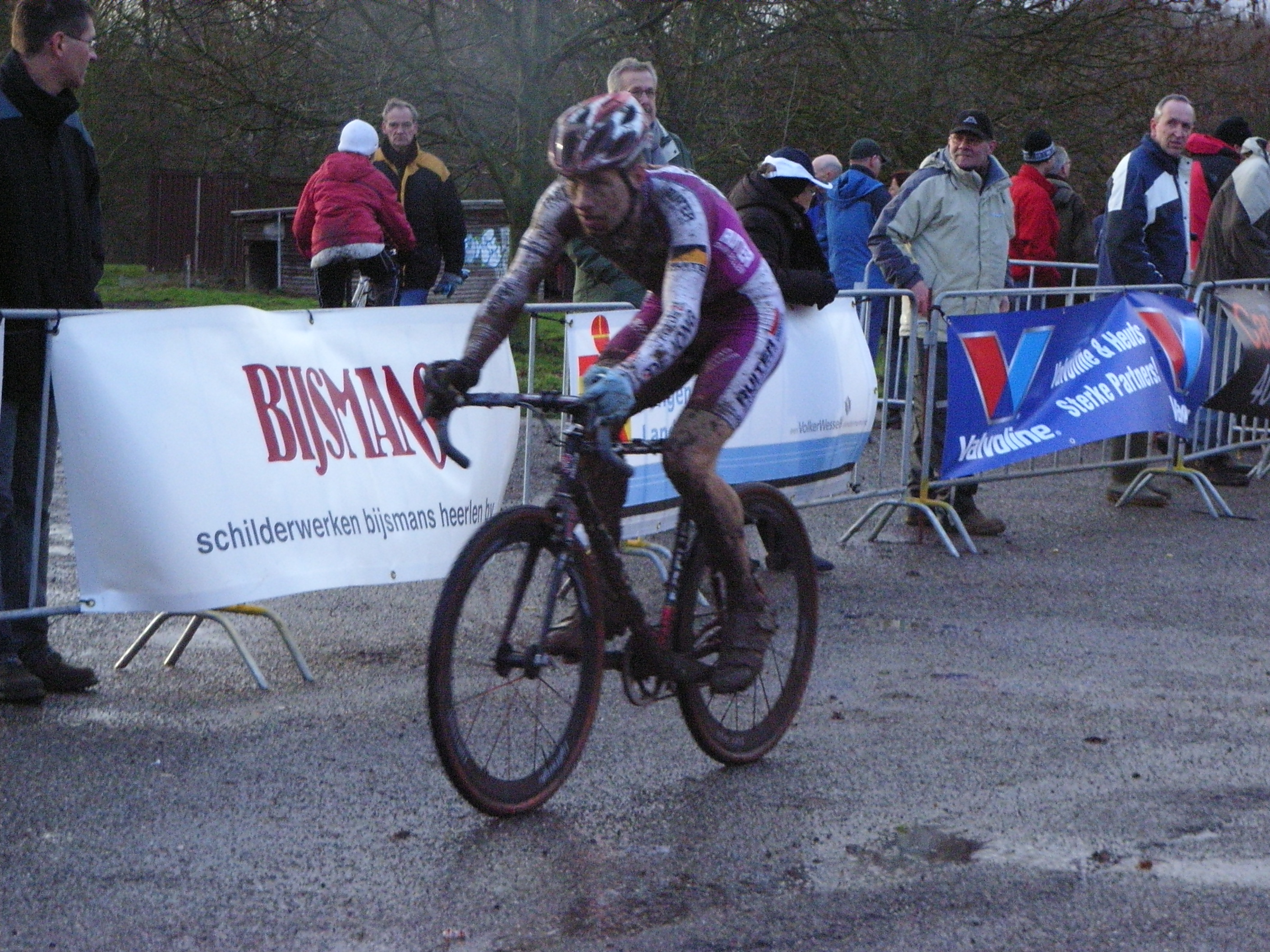 Cyclist Maarten Nijland in Heerlen